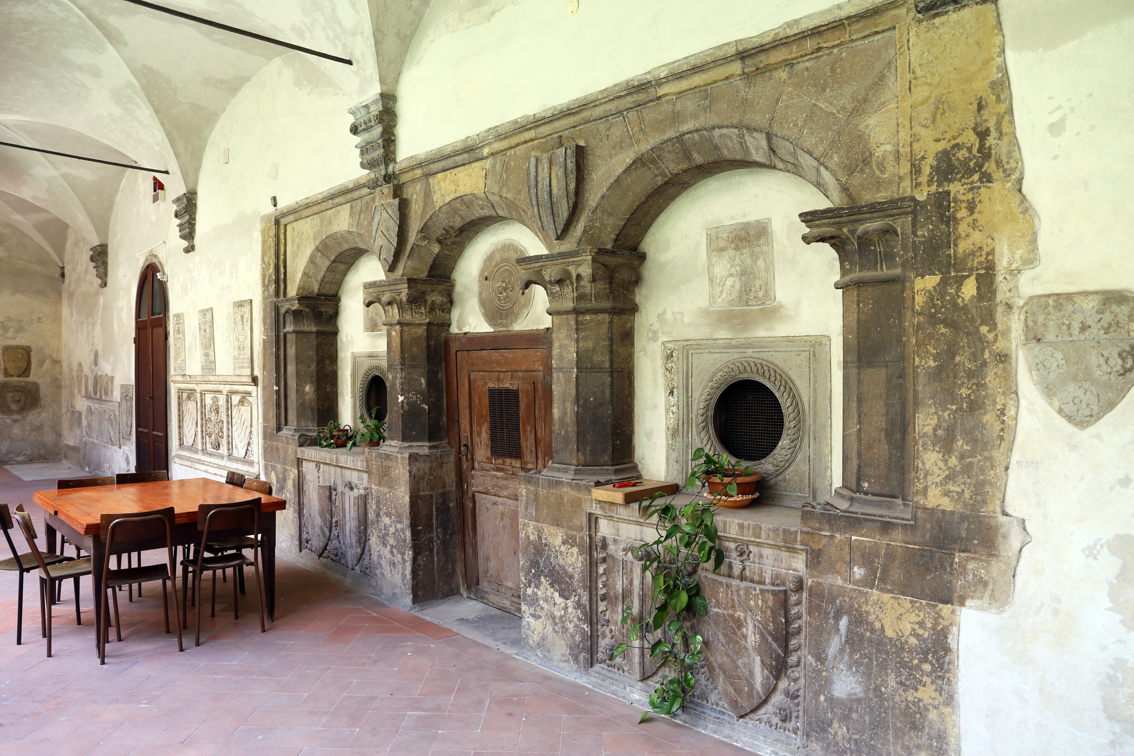 Chiostro degli aranci